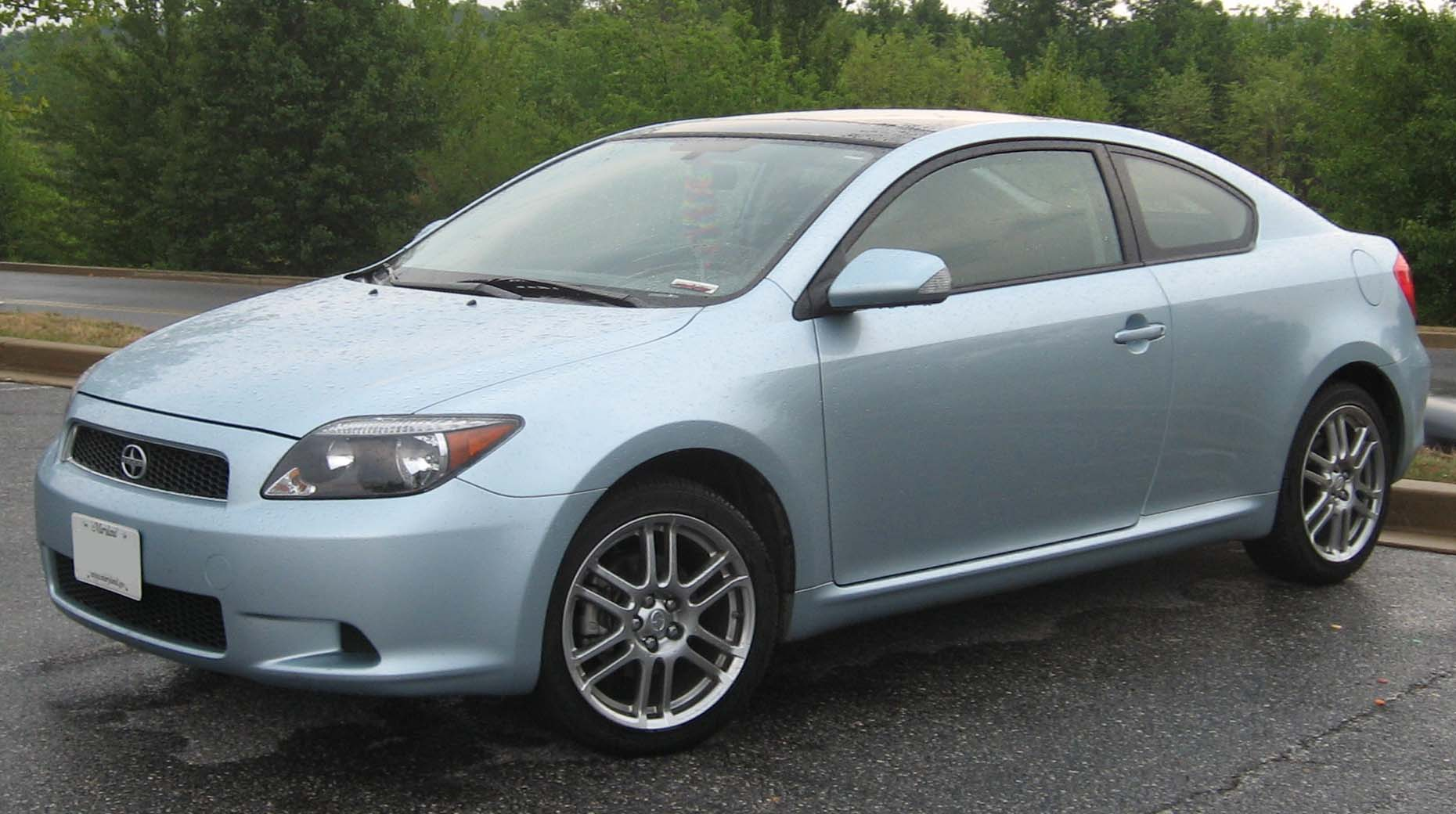 2005-2007 Scion tC photographed in Waldorf, Maryland, USA.